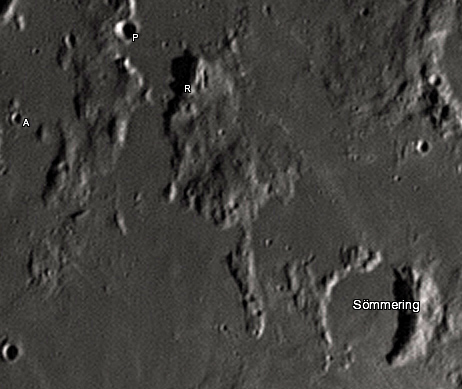 Sommering lunar crater as seen from Earth with satellite craters labeled